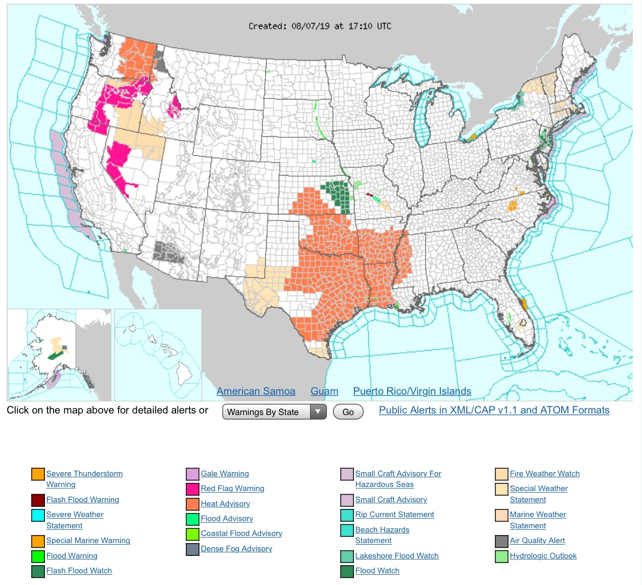 National Weather Service hazard map from August 7, 2019 at 17:10 UTC.